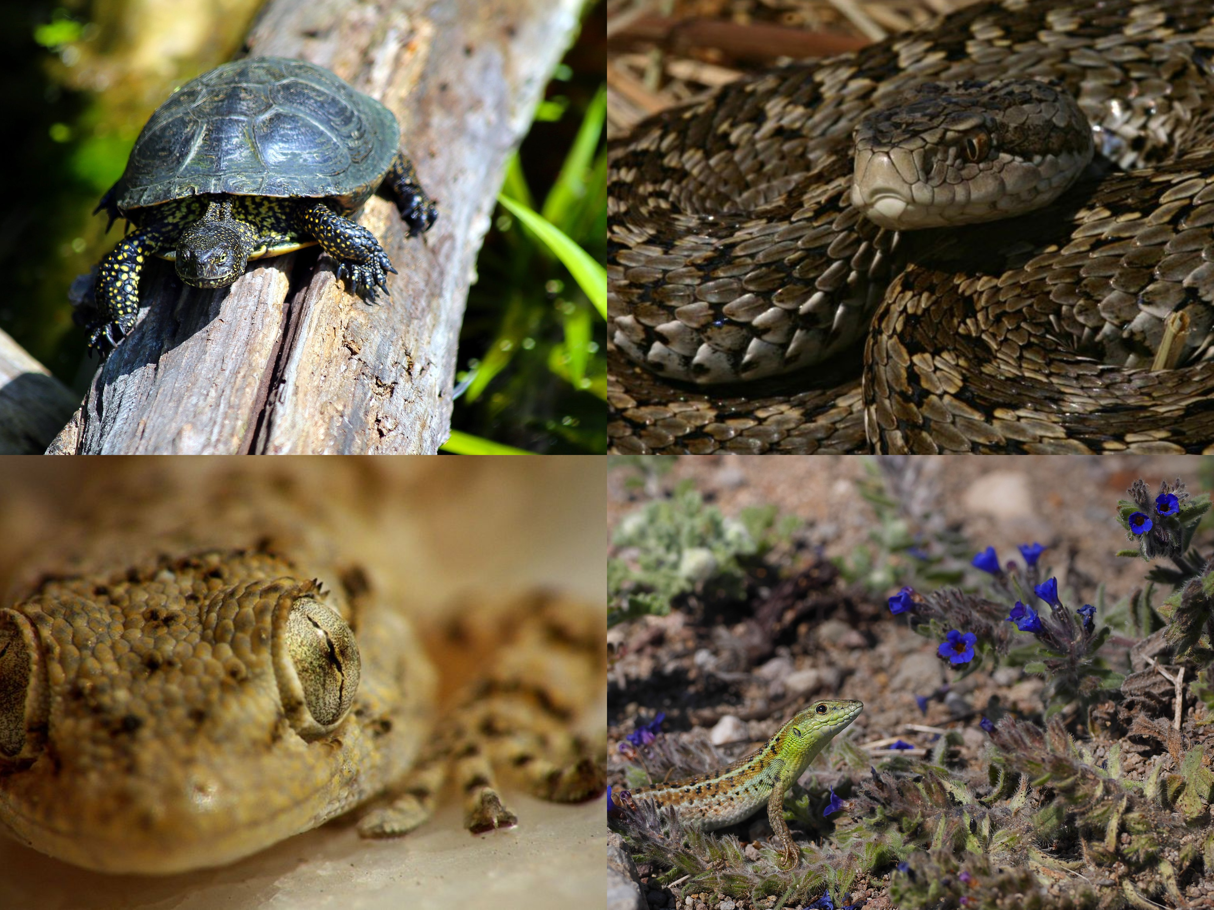 For this collage, I used the following pictures: Vipera ursinii → File:Vipera u rakosiensis.jpg → author=Pellinger Attila → Creative Commons Attribution-Share Alike 3.0 Unported Tarentola mauritanica → File:Intrépide salamandre.jpg → author= Catfisheye → Creative Commons Attribution 2.0 Generic Emys orbicularis → File:Emys orbicularis 2016 06.jpg → author = Vladimir Patras → CC BY-SA 4.0 Ophisops elegans → File:Snake-eyed Lizard (Ophisops elegans), Skala Eresou, Lesvos, Greece, 12.04.2015 (17766276786).jpg → Frank Vassen